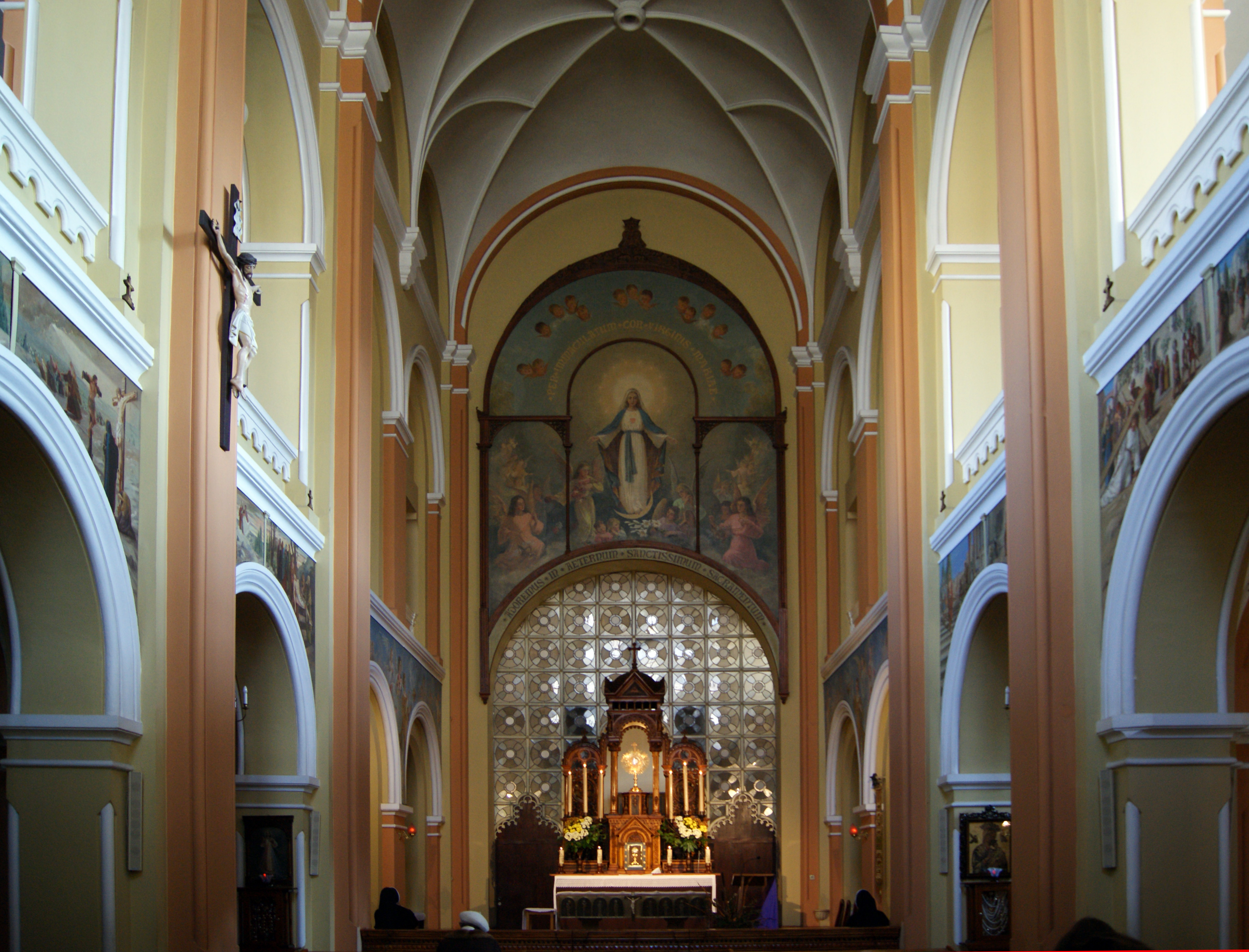 Immaculate Heart of Mary Church (interior), 2-6 Smolensk street, Krakow, Poland